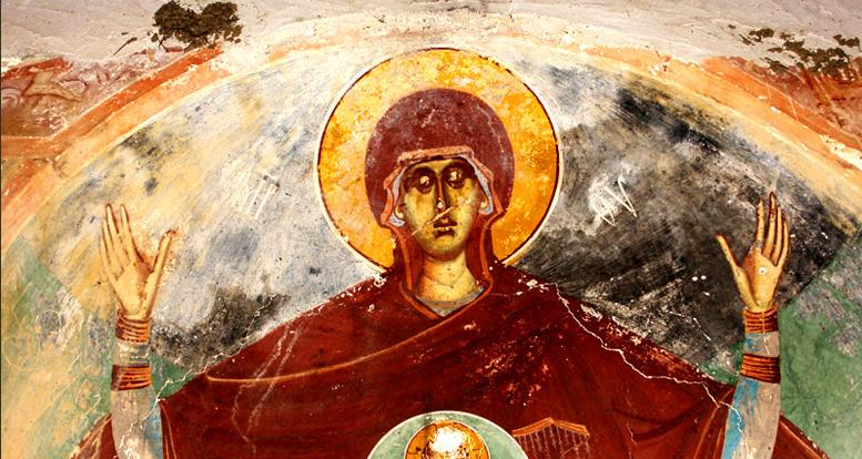 Frescos in Church of the Ascension of Jesus in historical village Čebren, Macedonia